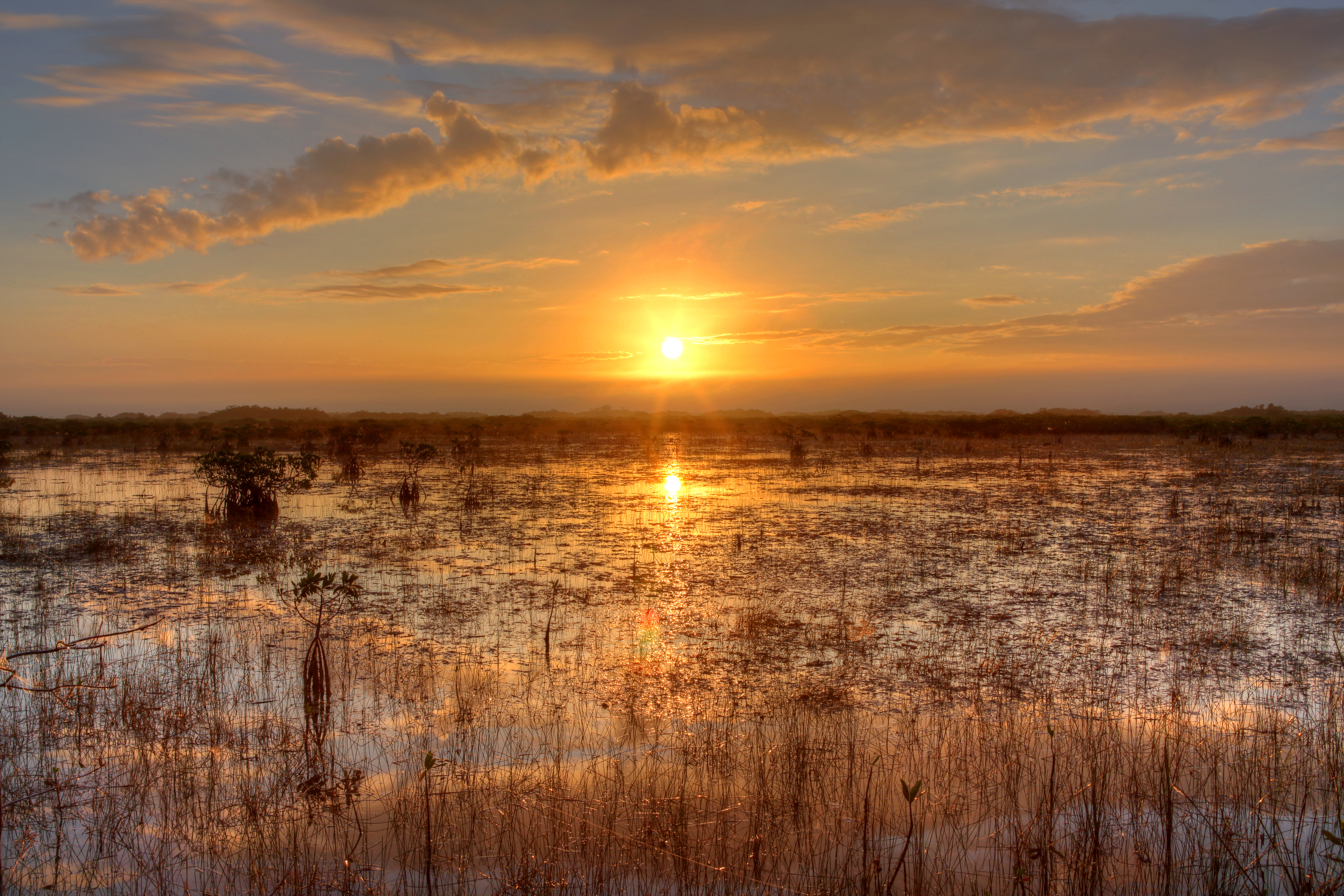 Sunset over the River of Grass, NPSphoto, G.Gardner